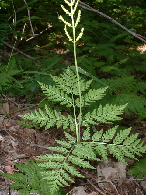 Rattlesnake fern (Botrychium virginianum), Pancake Bay Provincial Park, Ontario